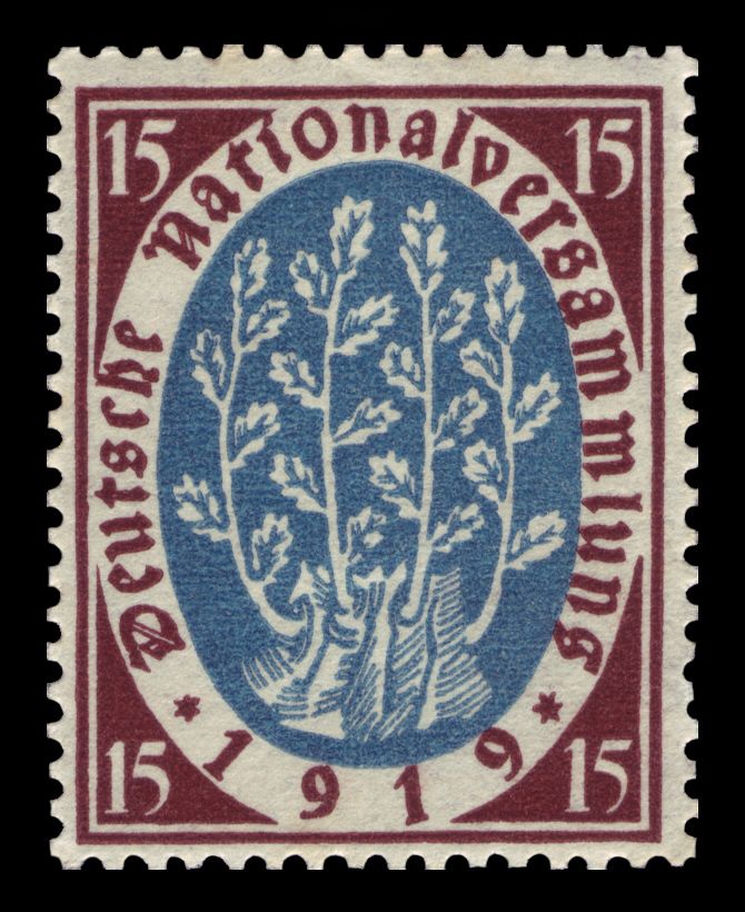 Opening of the Weimar National Assembly Graphics by Ernst Böhm Ausgabepreis: 15 Pfennig First Day of Issue / Erstausgabetag: 1. Juli 1919 Michel-Katalog-Nr: 108 (Deutsches Reich)